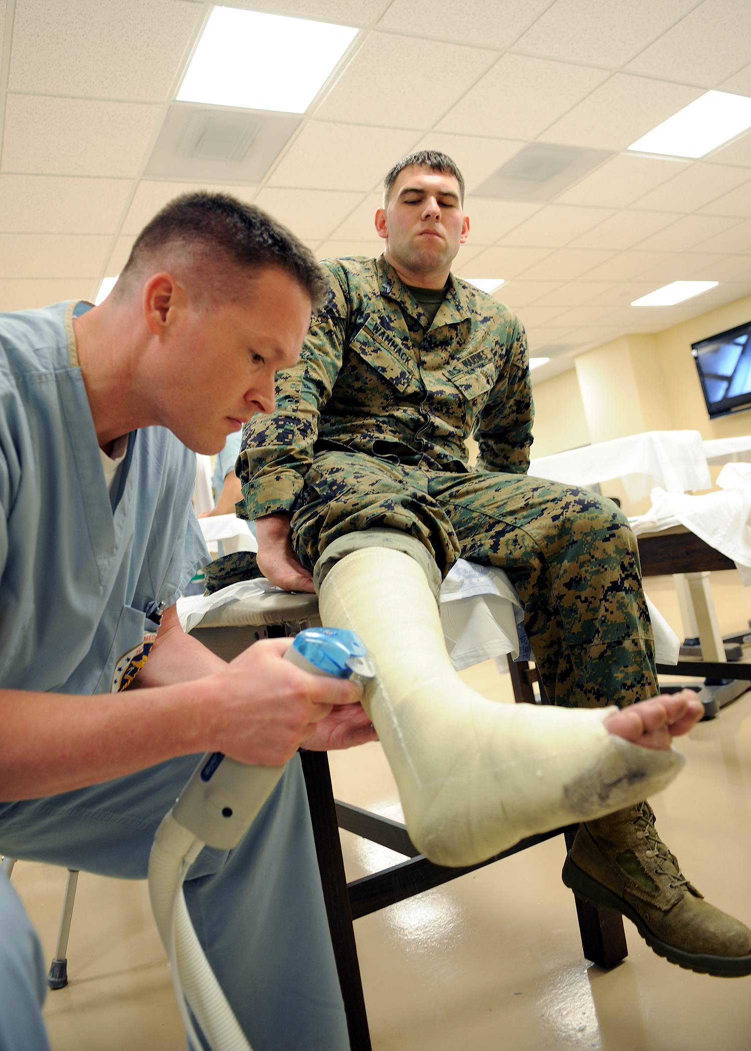 SAN DIEGO (Feb. 11, 2010) Naval Medical Center San Diego orthopedic resident Lt. Todd A. Fellers removes a cast from Cpl. Brent R. Wommack in the orthopedic acute care ward. Naval Medical Center San Diego recently received a five-year re-accreditation after completing an evaluation by the American Council of Graduate Medical Education. (U.S. Navy photo by Mass Communication Specialist 3rd Class Jake Berenguer/Released)